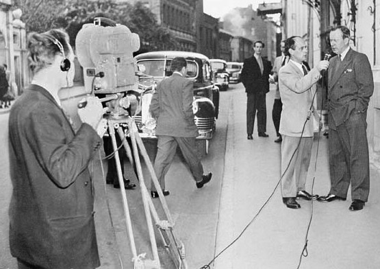 René Lévesque, Radio-Canada reporter, interviewing Lester B. Pearson, Canada's minister of External Affairs, outside the Canadian embassy in Moscow in October, 1955